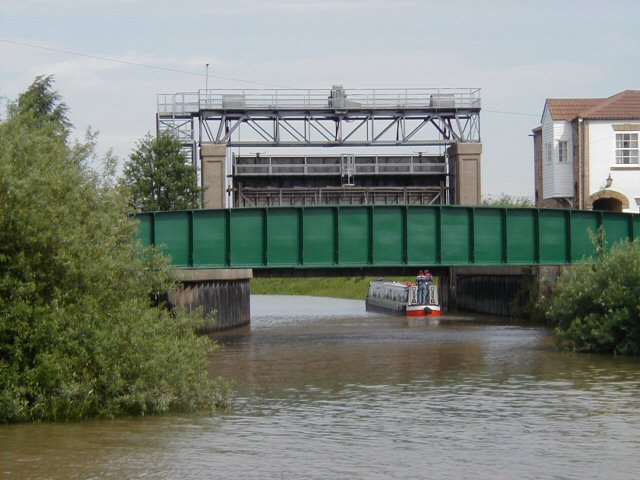 River Idle. About 1/4 mile downstream of the tide- and current-free refuge of West Stockwith Basin the R Idle joins the Trent. Narrowboat Earnest is seen here passing under the road bridge and the flood defence guillotine gate. View NW from the R Trent.